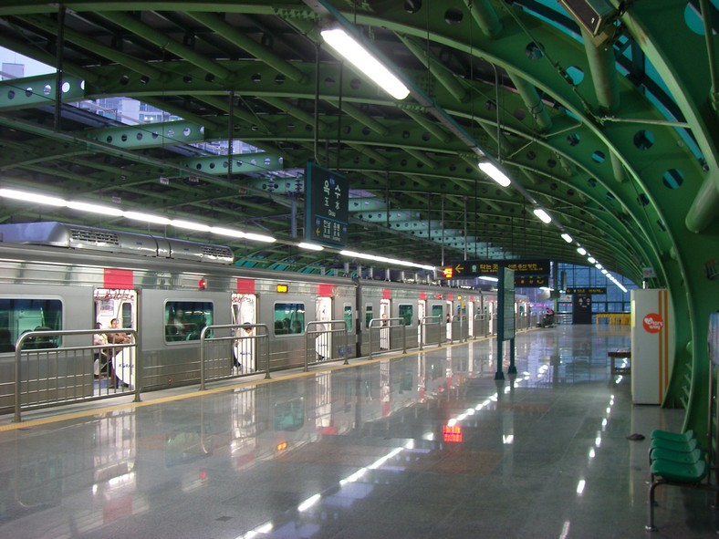 Korail Seoul Subway Jungang Line Oksu Station